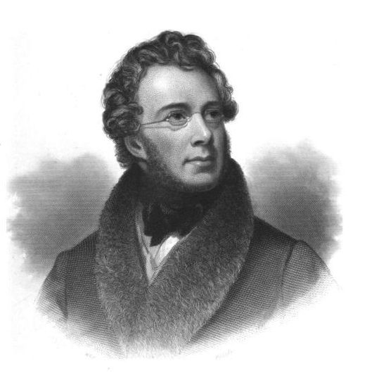 Engraving of American poet Charles Fenno Hoffman from The poems of Charles Fenno Hoffman, edited by Edward Fenno Hoffman. Published by Porter & Coates, 1873. Original copy at the New York Public Library. 238 pages